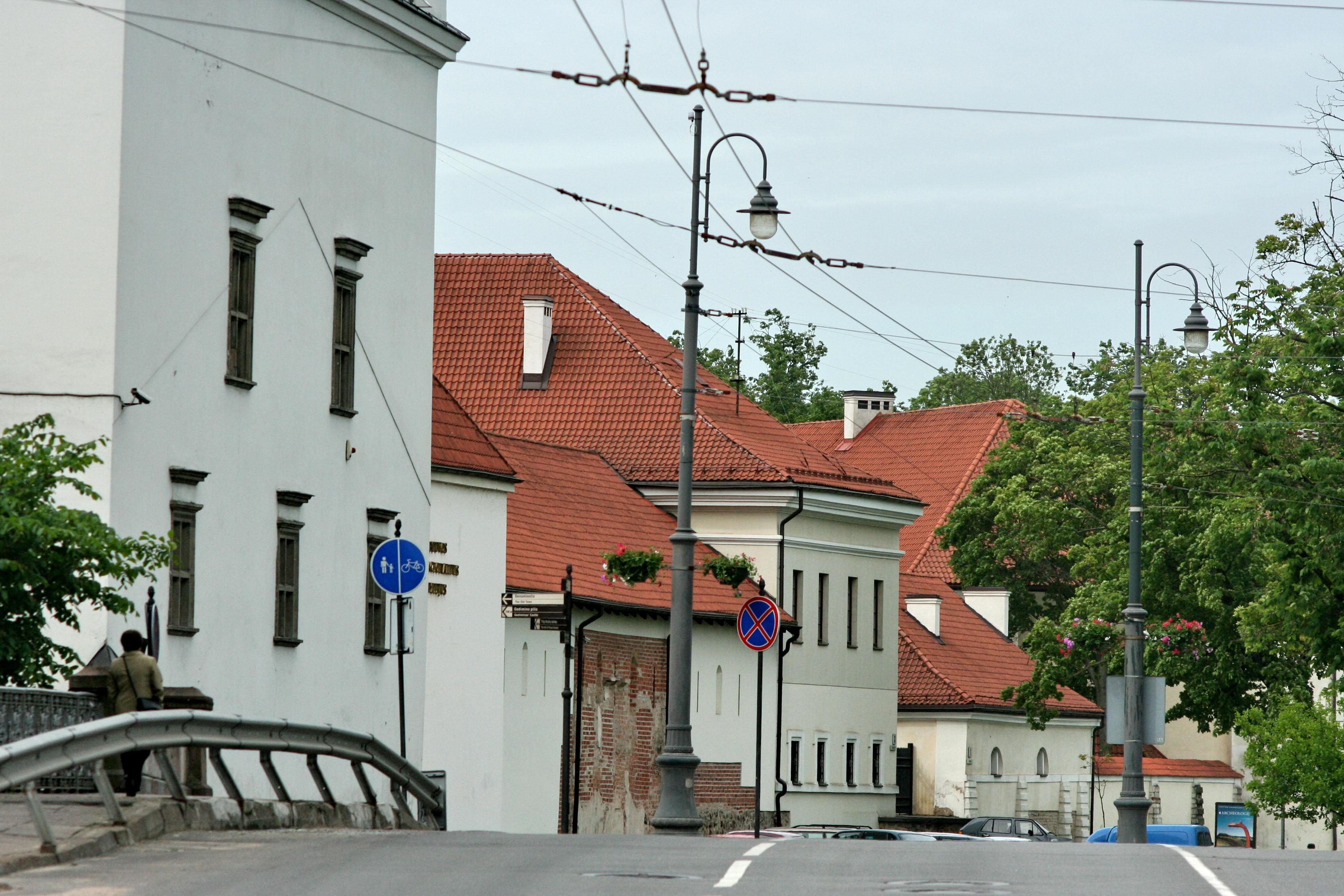 Vilnius Lower Castle arsenal